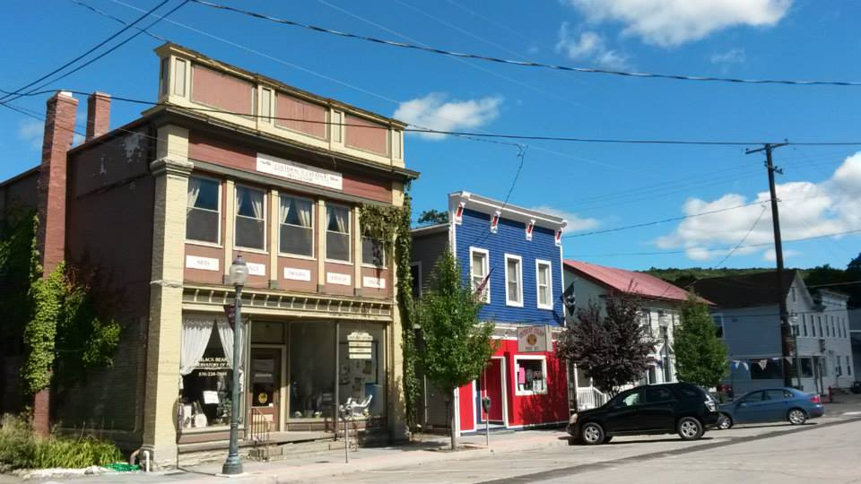 Photo of Church Street - Photo by Karen Rice